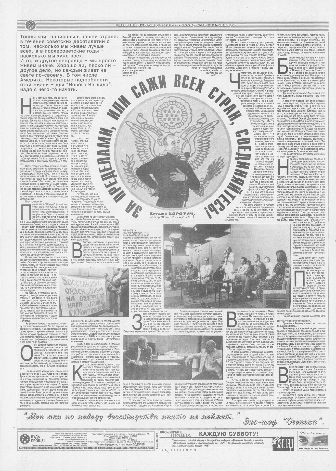 Vitaly Korotich in Novy Vzglyad